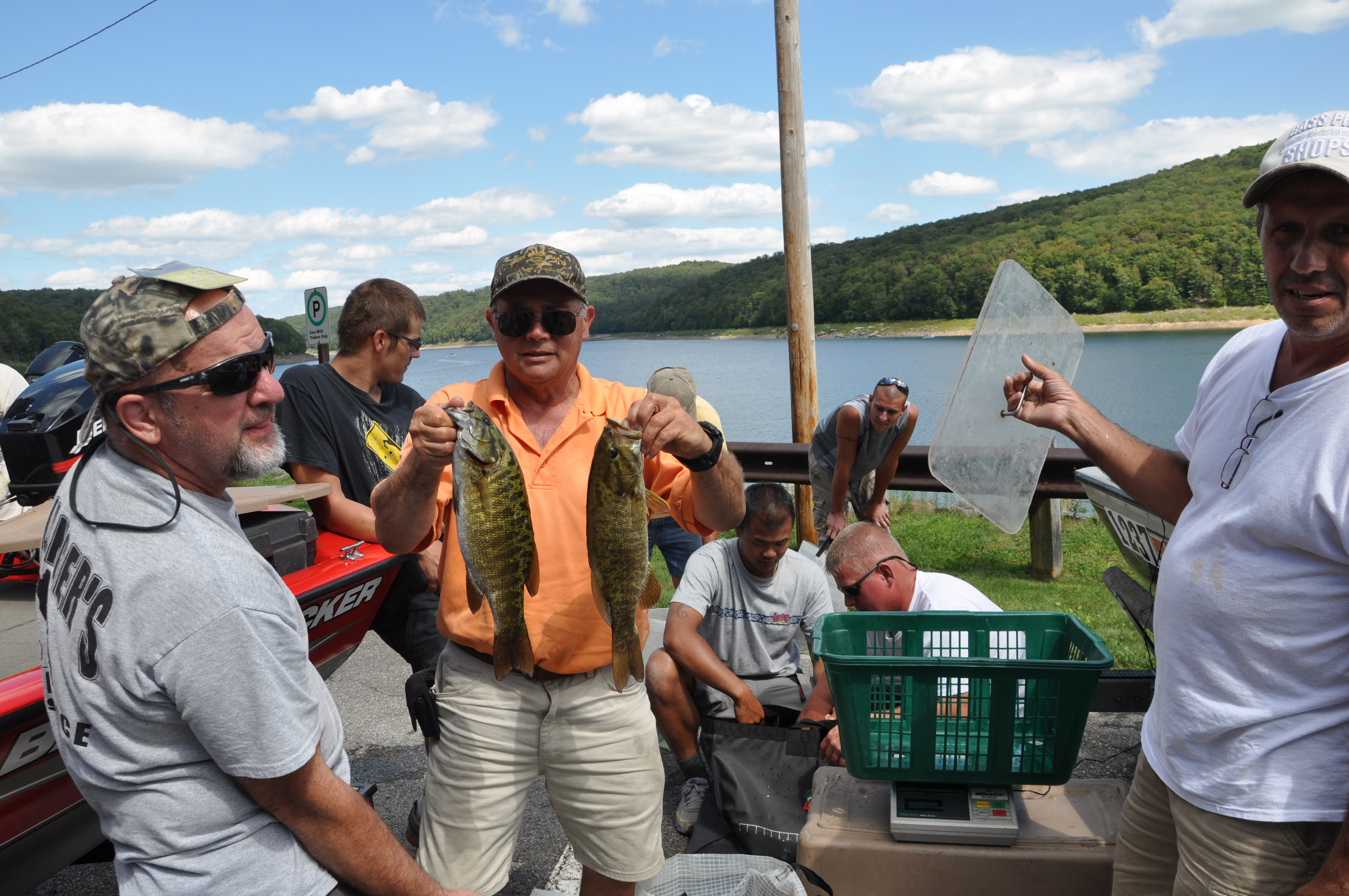 East Branch Lake (at Elk State Park) hosted the Reynoldsville Bass Club Aug. 11. Approximately 15 boats entered the tournament. Teams were permitted to submit up to five fish and each one had to measure at least 12inches to count for the tournament. All fish were then released back into the lake.